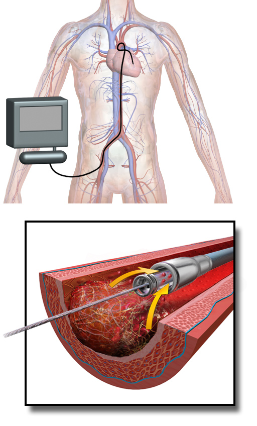 Angiojet. This image was donated by Blausen Medical. Please visit our website to see more medical illustrations and animations.